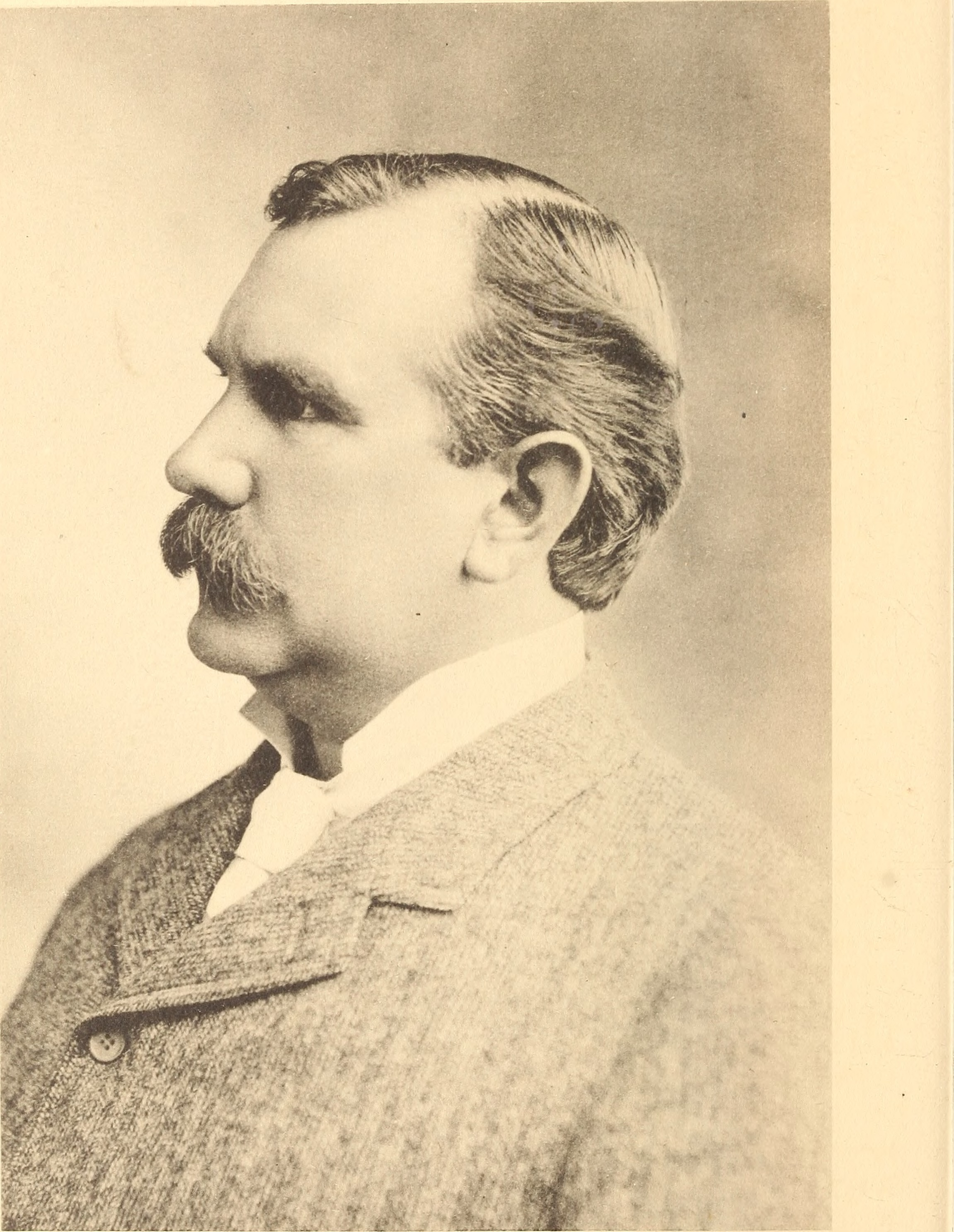 Title: Annual report of the Director to the Board of Trustees for the year .. Year: 1906 (1900s) Authors: Field Museum of Natural History Subjects: Field Museum of Natural History; Natural history Publisher: Chicago, U. S. A. : Field Museum of Natural History Text Appearing Before Image: FIELD MUSEUM OF NATURAL HISTORY. REPORTS, PLATE III. Text Appearing After Image: THE LATE CHARLES B. CORY. Curator of Zoology.